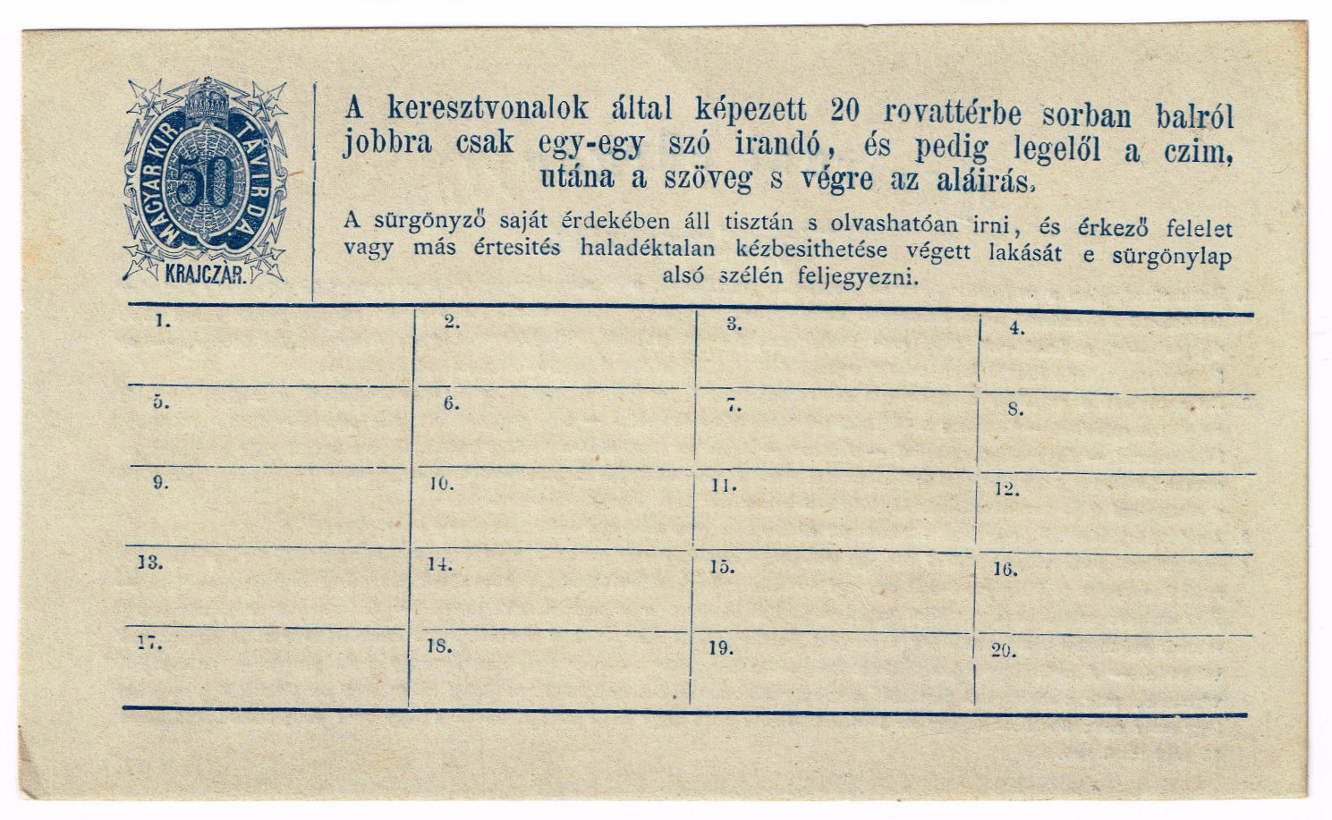 A Hungarian telegram form with an imprinted stamp. Hungary used telegraph stamps of this design in the 1870s and later and the form may be dated to this time.